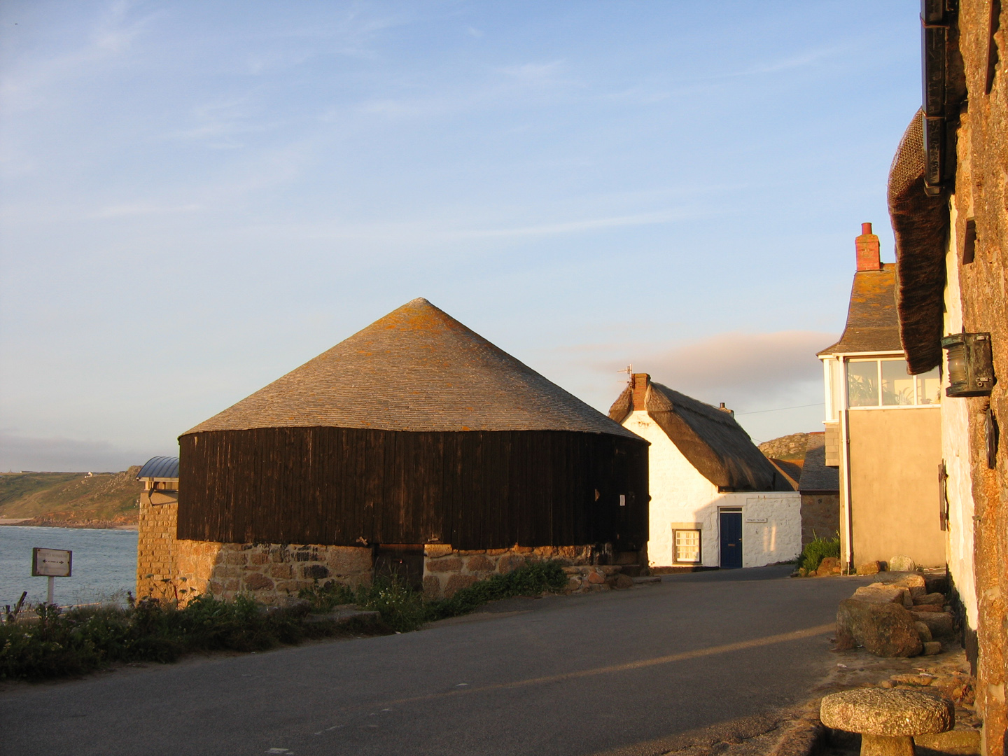 Sennen Cove, Cornwall, at dusk, including The Round House.